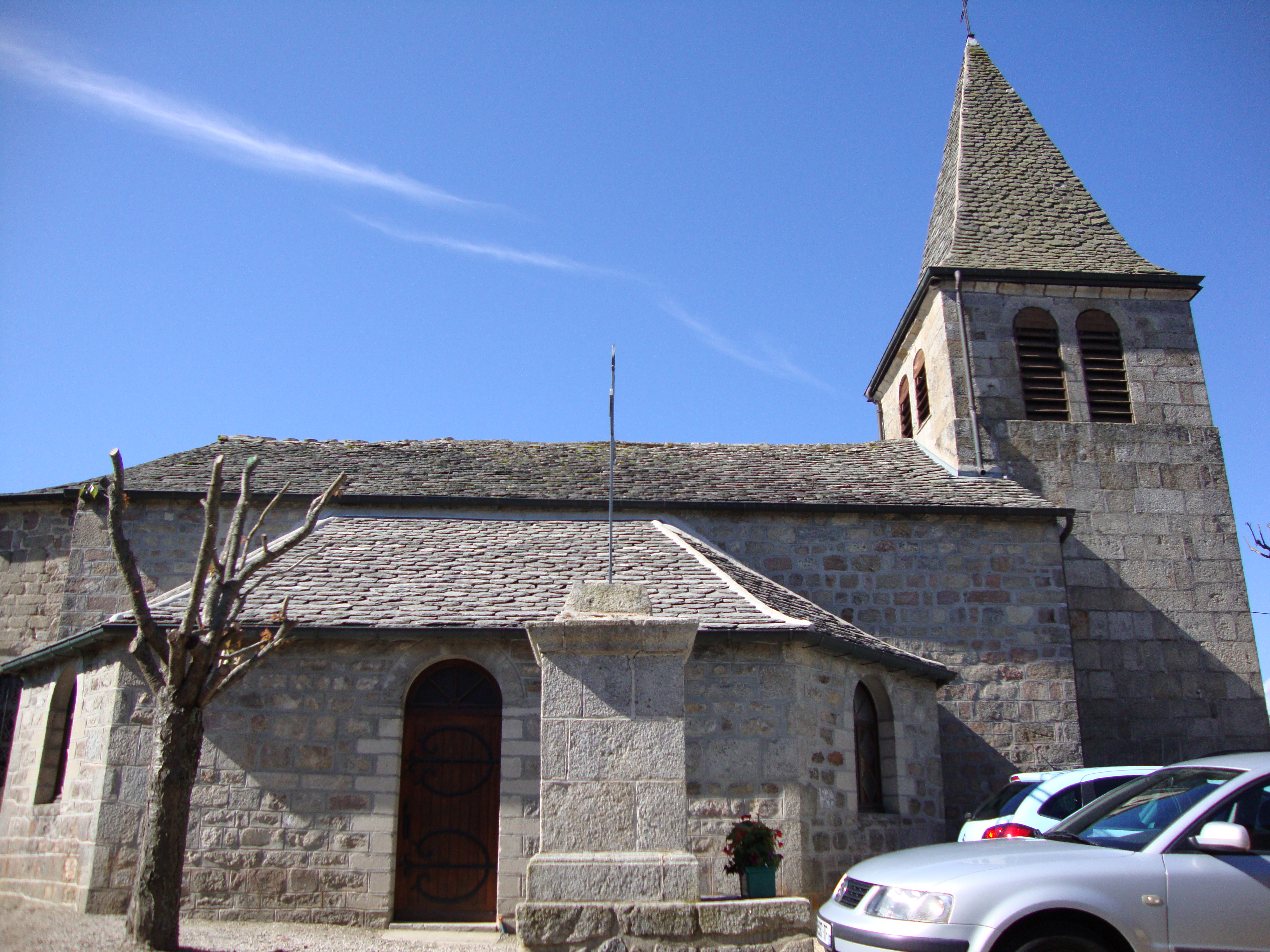 Le Chambon-sur-Lignon (Haute-Loire, Fr) church